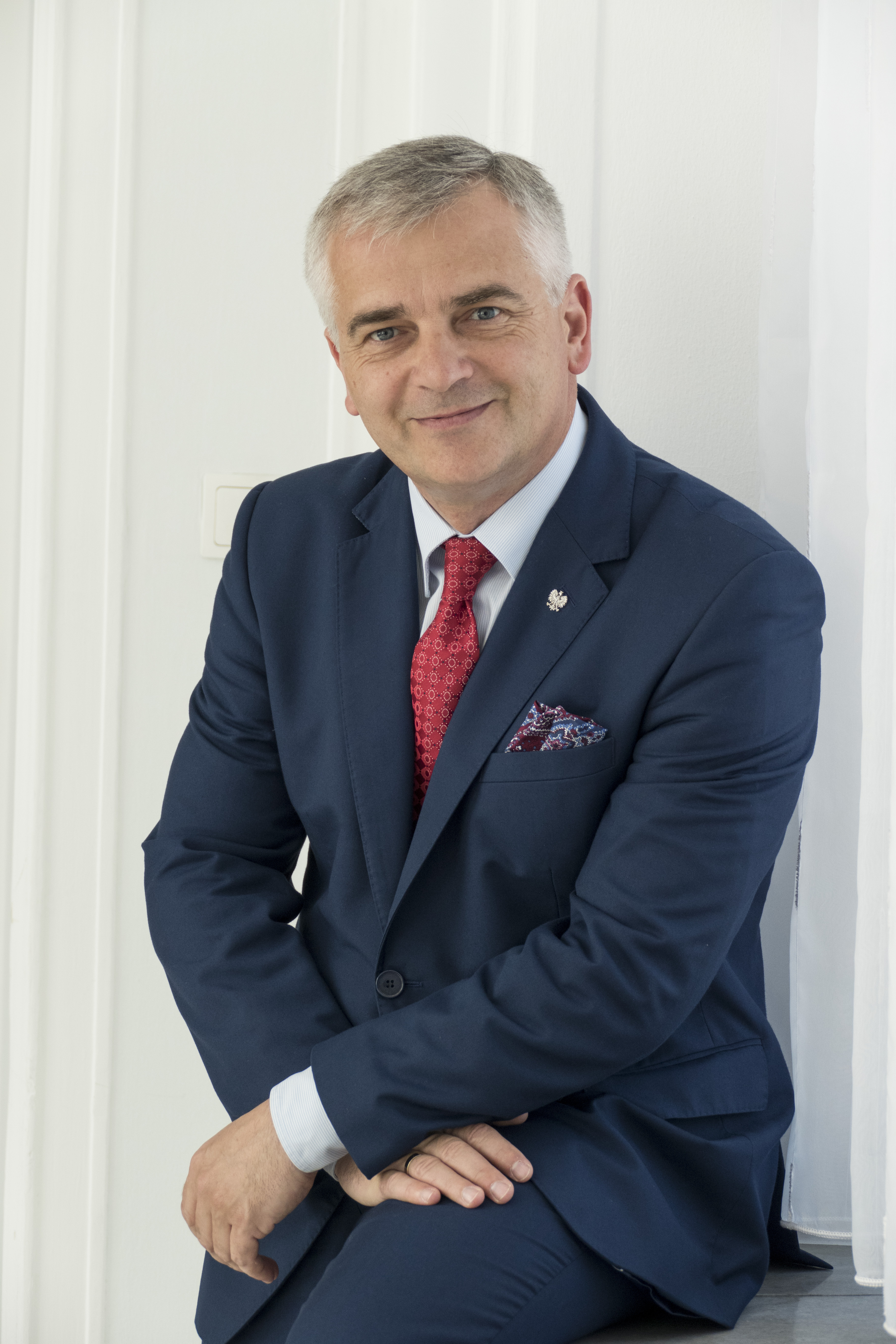 Kukiz'15